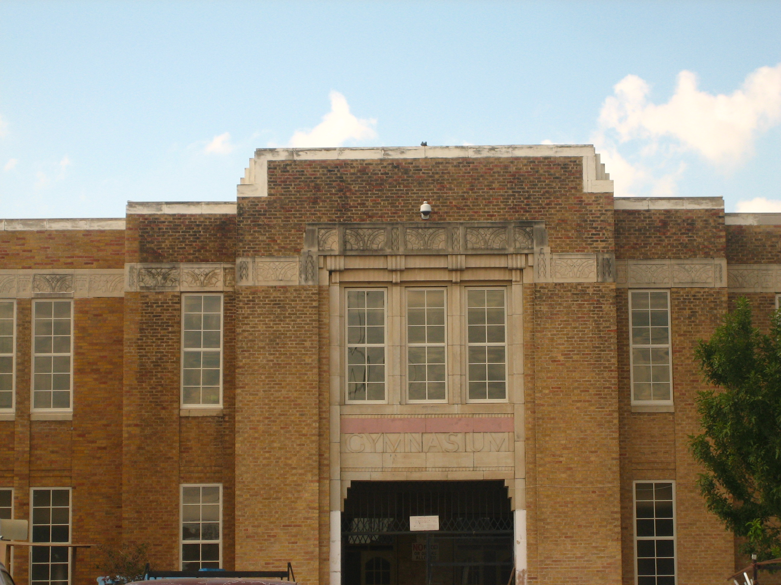 I took photo on Nov. 3, 2008.Billy Hathorn (talk) 03:08, 4 November 2008 (UTC)